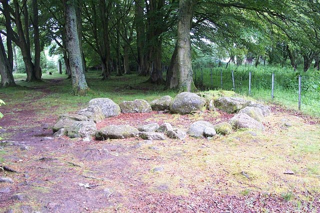 Clava Cairns - Kerb Cairn This is believed to have been a late addition to the cemetery having been built aroubd 1000 BC